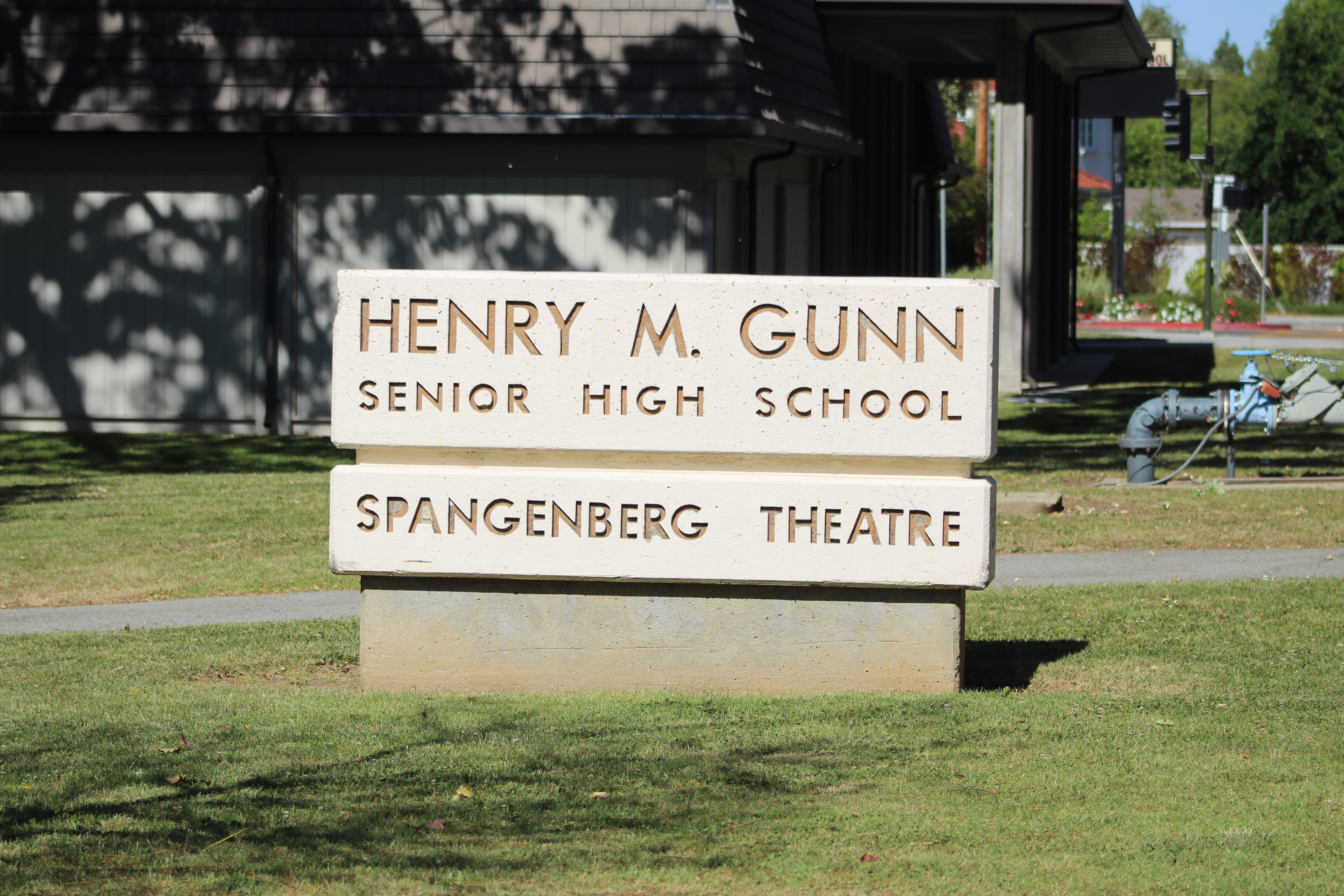 Image of Gunn's front sign in April 2020. Note that the buildings in the back are painted in a different colour than the 2011 photo. Taken during the coronavirus shutdown.